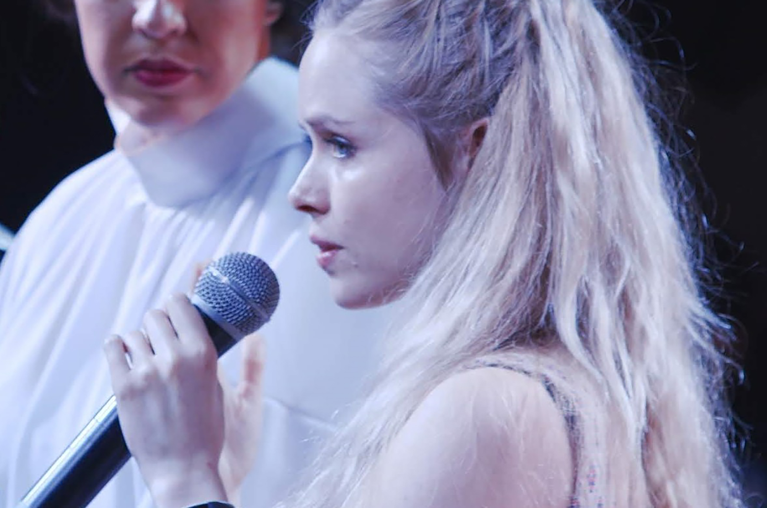 Ingvild Deila Syntropia at the 21st Shinobi Spirit cosplay event in Curitiba city, Brazil